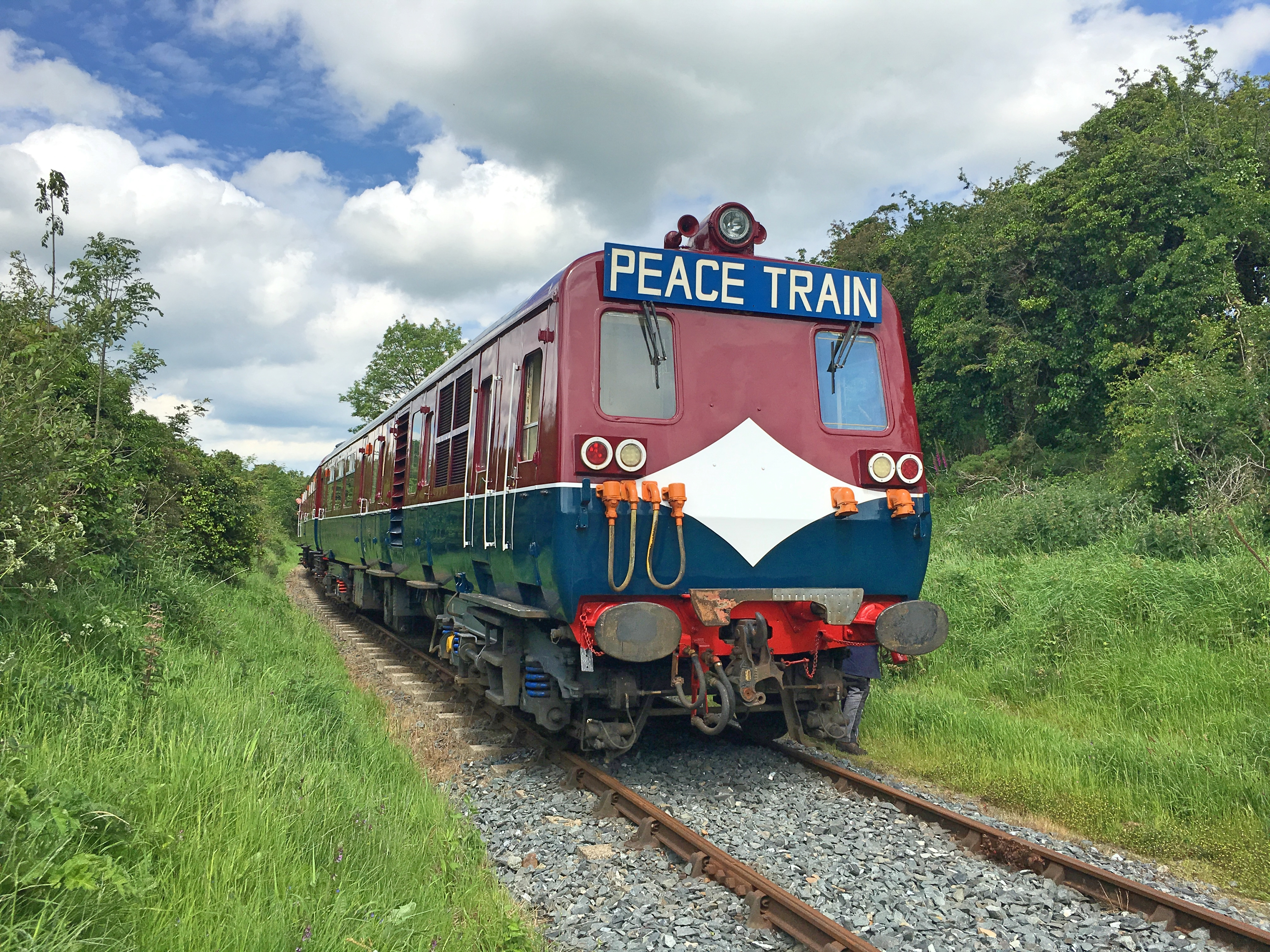 69 at DCDR's North Junction, wearing its original Peace Train headboard as part of filming for Channel 5's Chris Tarrant's Extreme Railways.